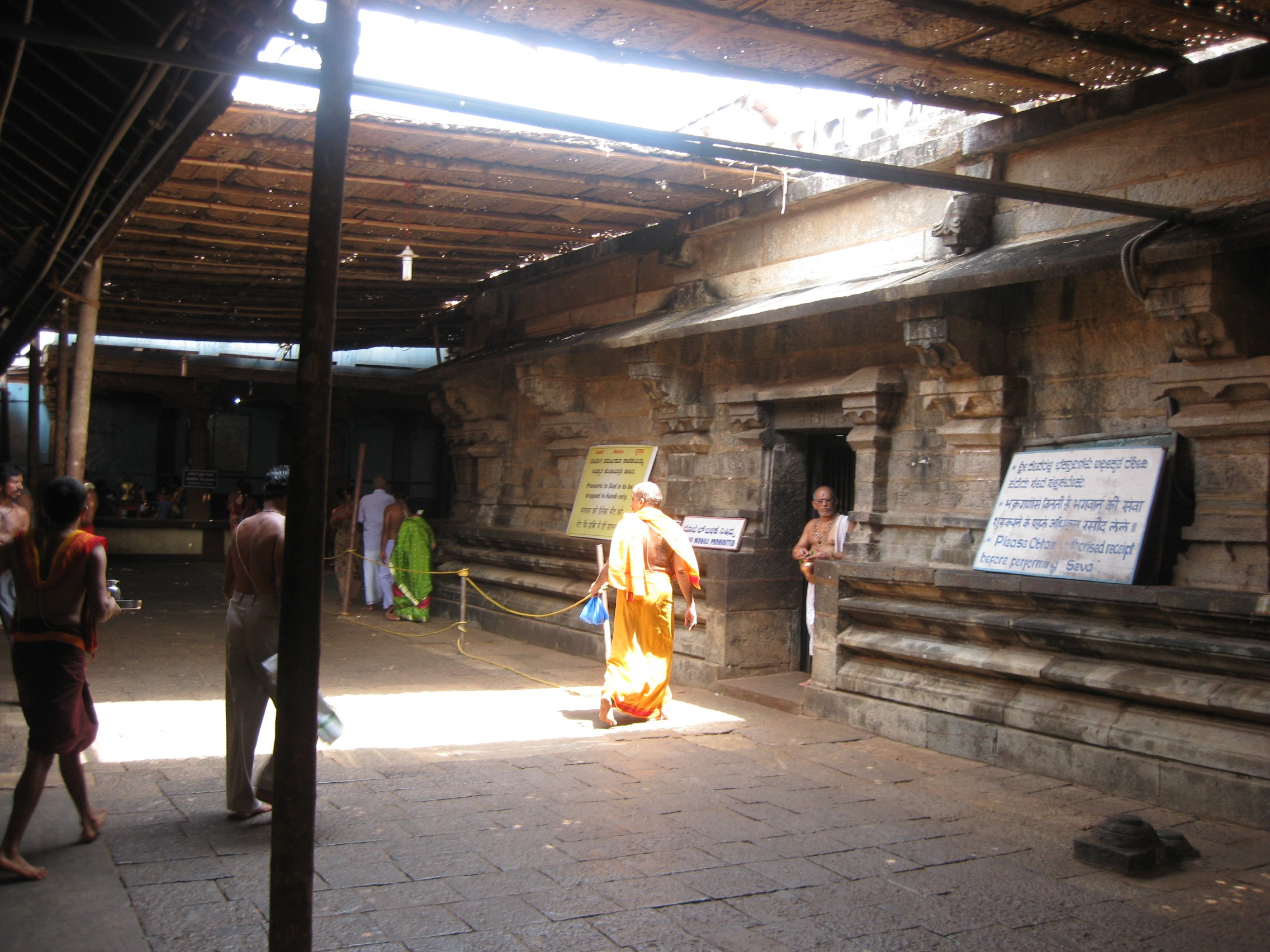 Pradakshina path of mahabaleshwar temple in Gokaran